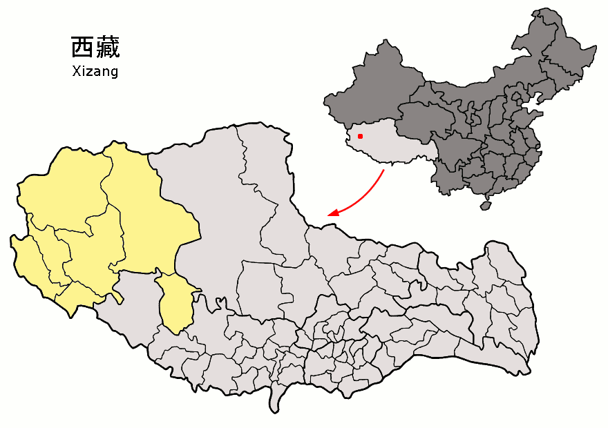 Location of Ngari Prefecture (yellow) within Tibet (Xizang) autonomous region of China